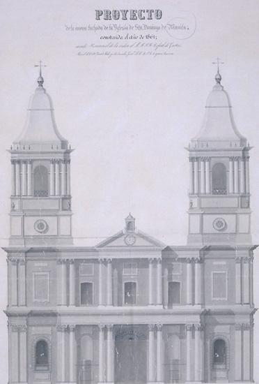 St. Domingo church at Manila (1861), dissapeared in the 1863 earthquake. Design of the façade.